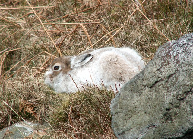 A Mountain Hare Pic taken March 21st, the hare is now turning back to its summer coat brown, not all hares in this area are at this stage yet. For more mountain hare pics follow link.